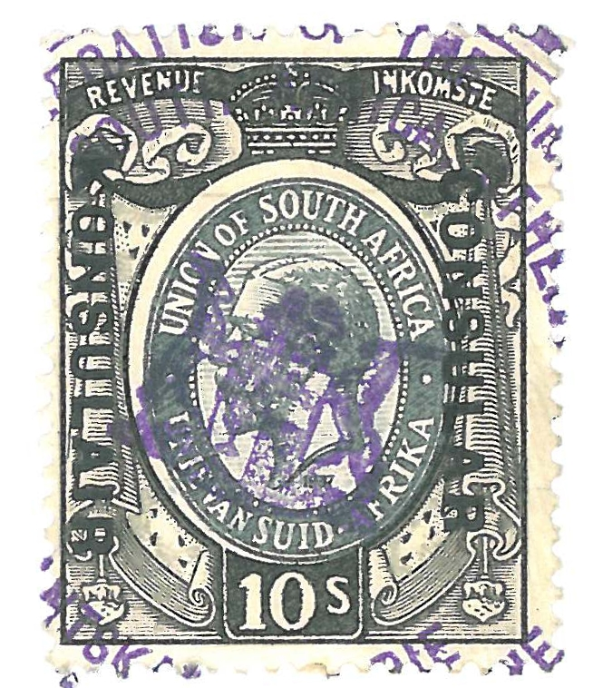 Revenue stamp of the Union of South Africa